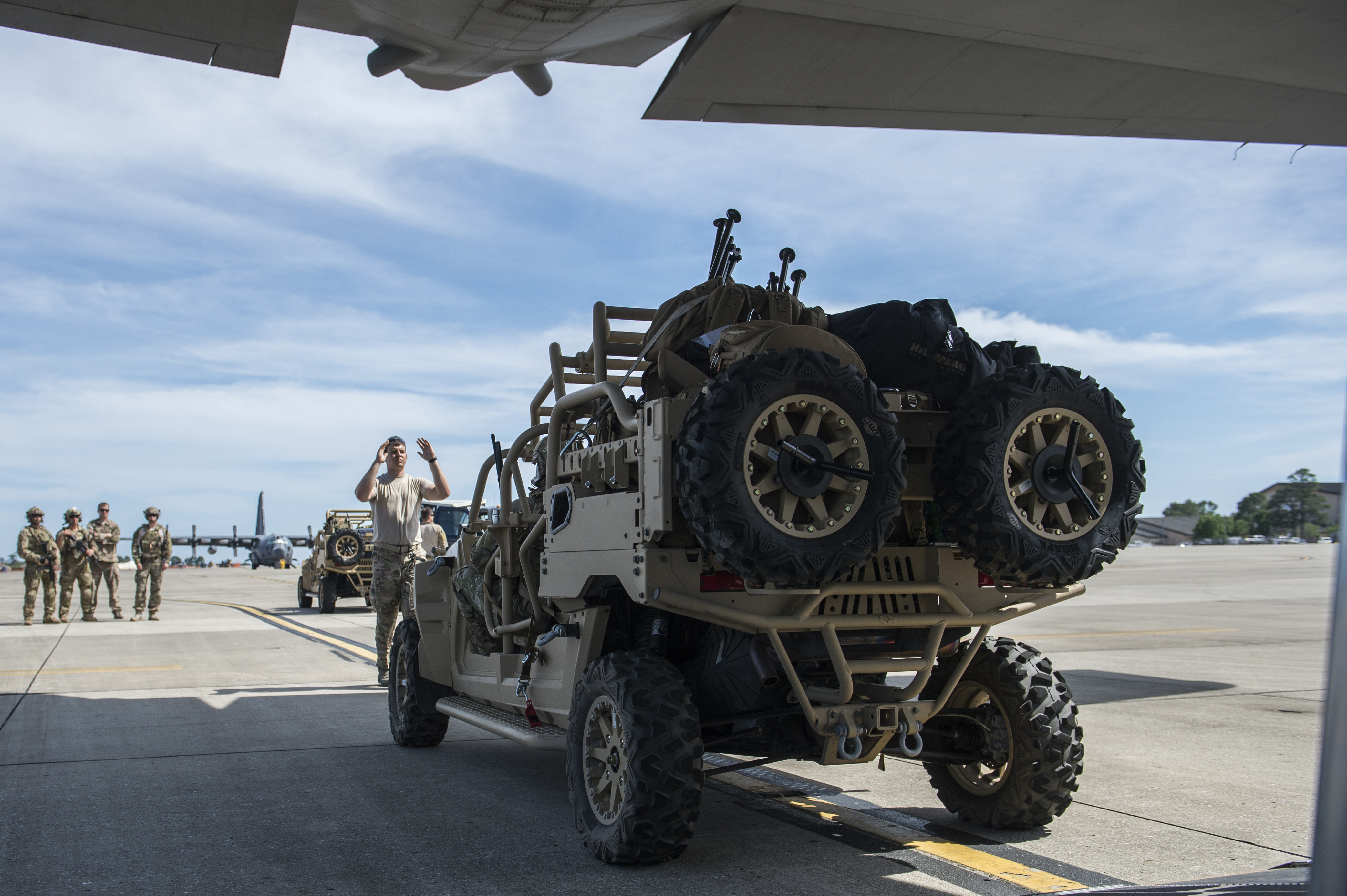 A U.S. Air Force combat controller, 21st Special Tactics Squadron, loads a Polaris Razor all-terrain vehicle onto a C-130 Hercules on Hurlburt Field, Fla., April 22, 2015. Emerald Warrior is the Department of Defense's only irregular warfare exercise, allowing joint and combined partners to train together and prepare for real world contingency operations. (U.S. Air Force photo by Cory D. Payne/Released)